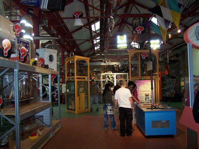 Enginuity, Coalbrookdale One of the 10 museums in the Ironbridge Gorge, Enginuity provides hands-on Science experiments for children.